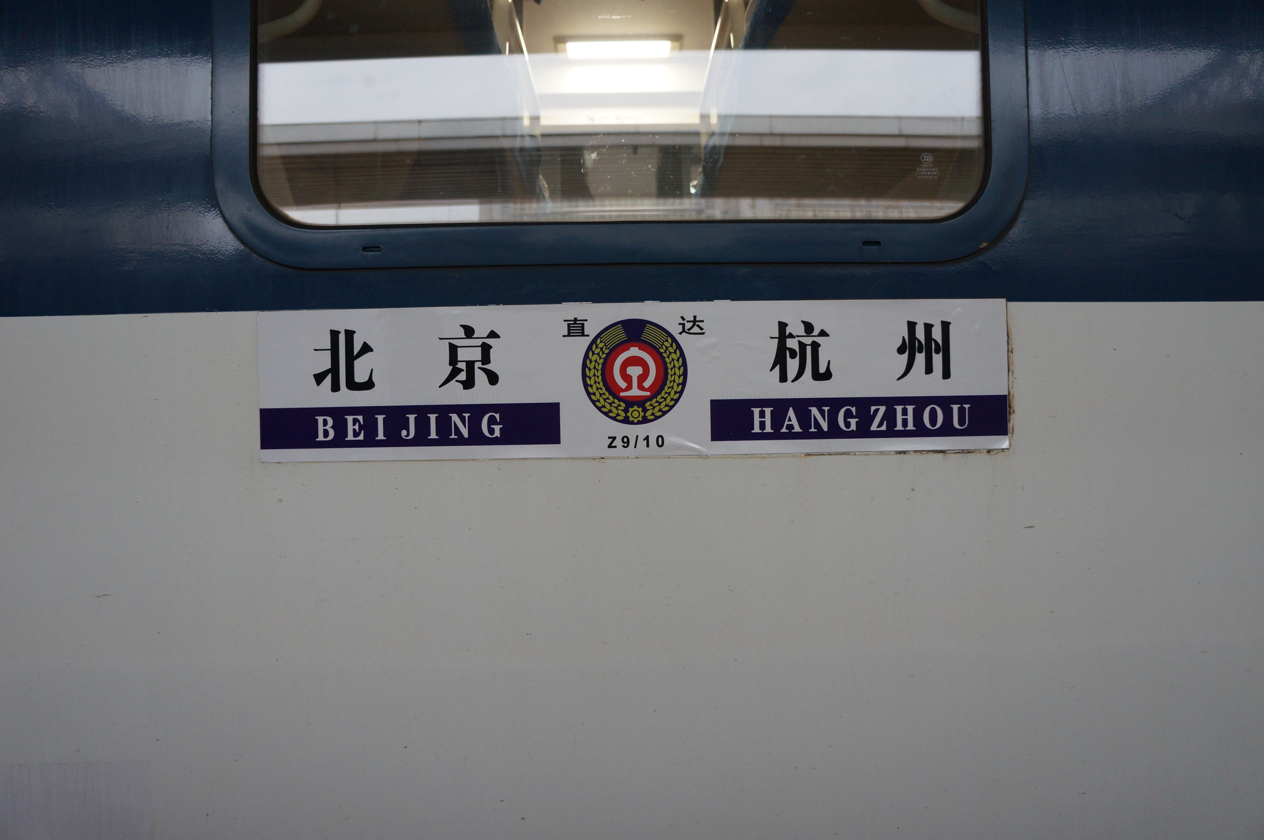 Z9 10 information board 201606